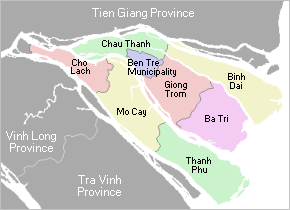 Map of Vietnam's Ben Tre province. Made for Wikipedia.